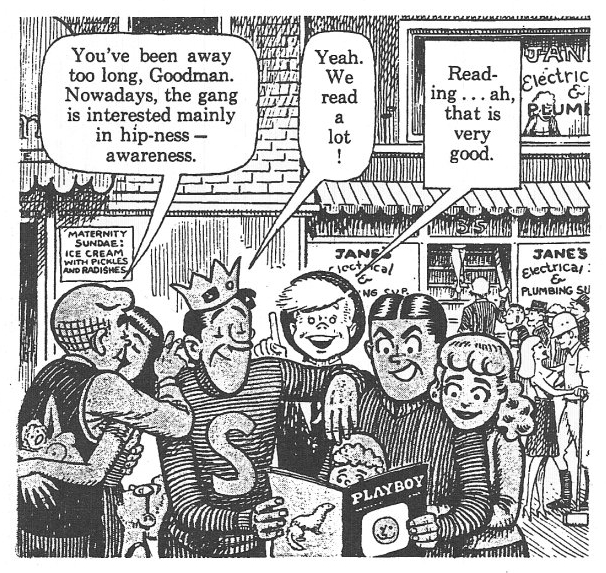 The third panel of page 2 of "Goodman Goes Playboy", a Goodman Beaver story by Harvey Kurtzman and Will Elder first published in Help! #13 (February 1962)